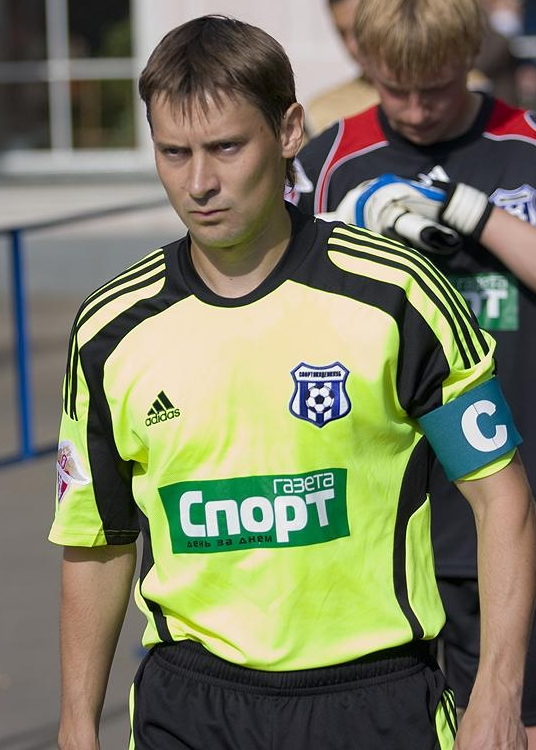 Mikhail Lunin as a captain of FC Sportakademklub